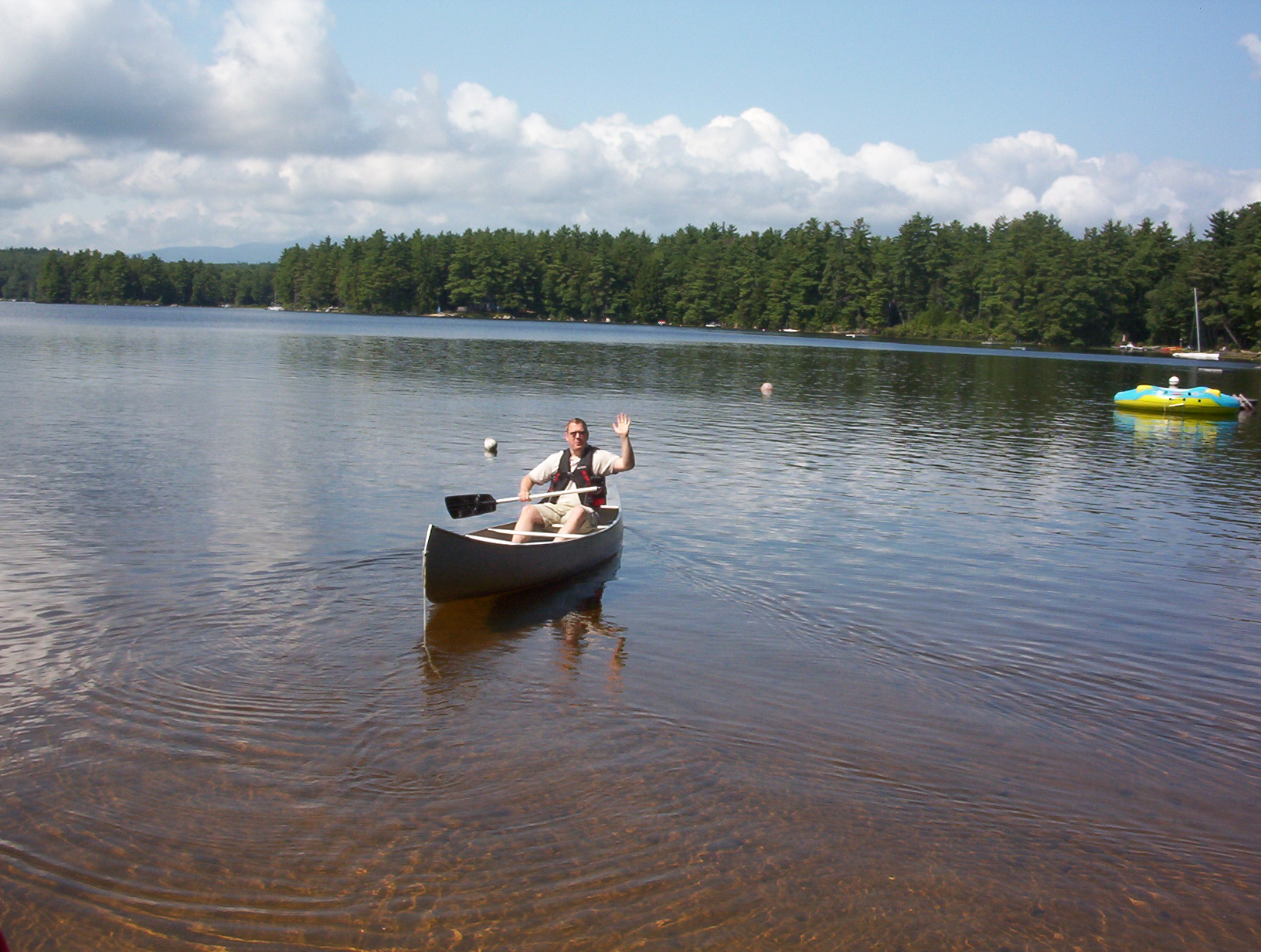 Summer paddle on Conway Lake, Center Conway, New Hampshire.